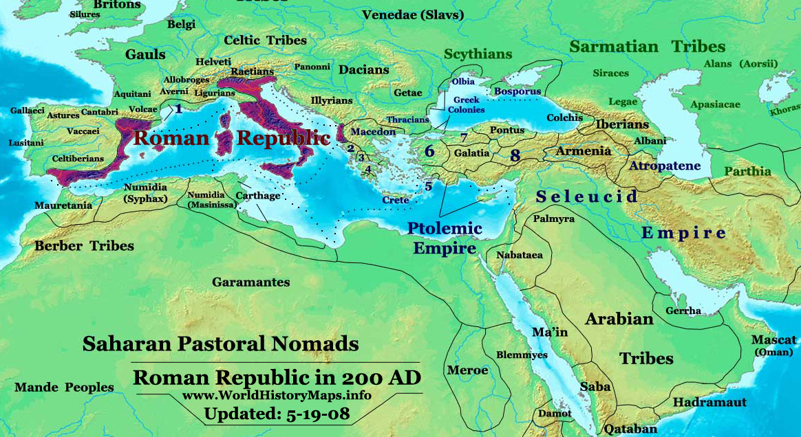 The Roman Republic in 200 BC.